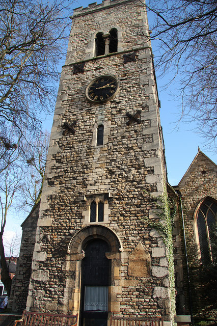 West tower of St Mary-le-Wigford parish church, Lincoln, England, seen from the west